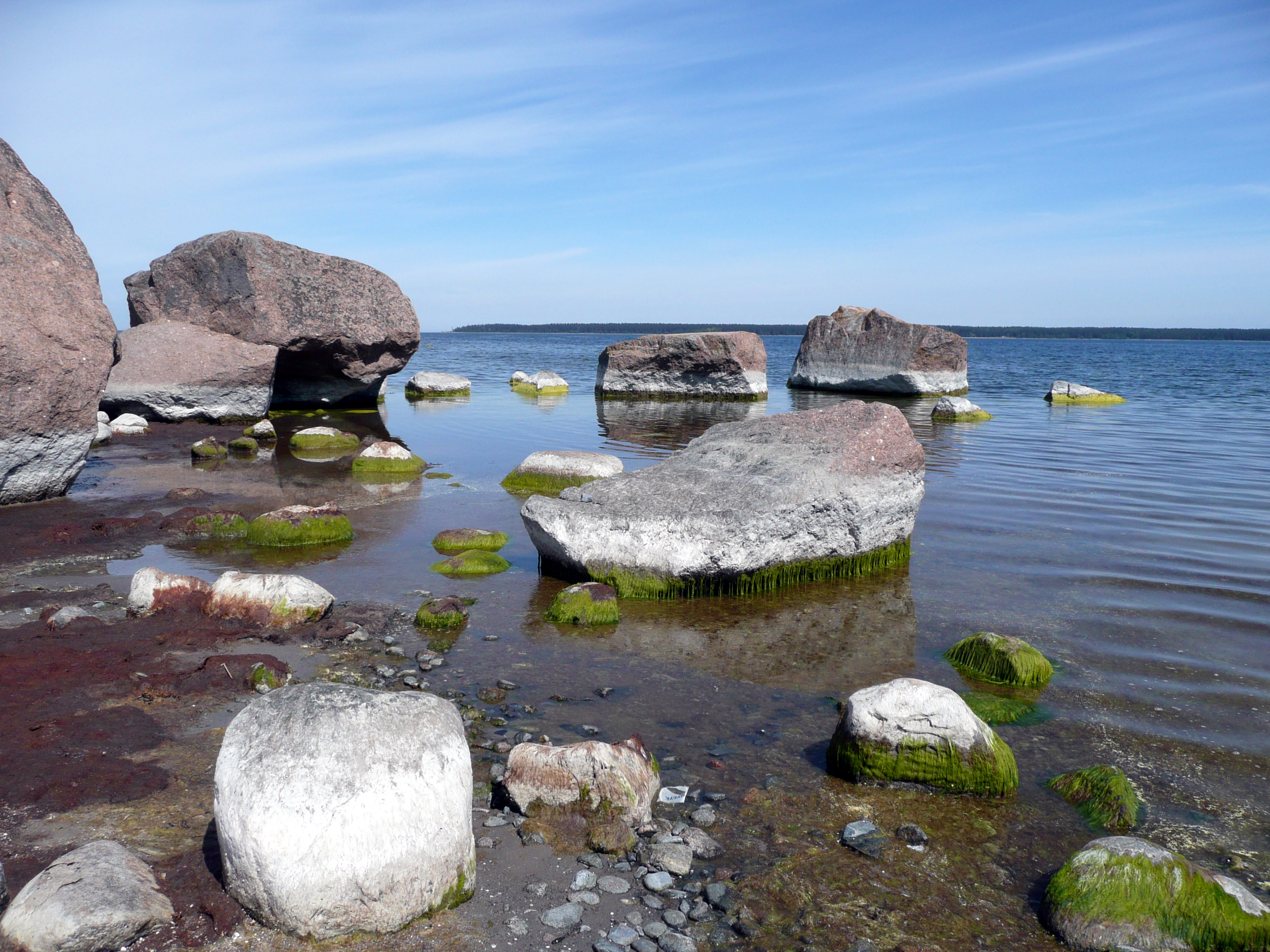 Boulders in Käsmu, Lahemaa National Park, Estonia